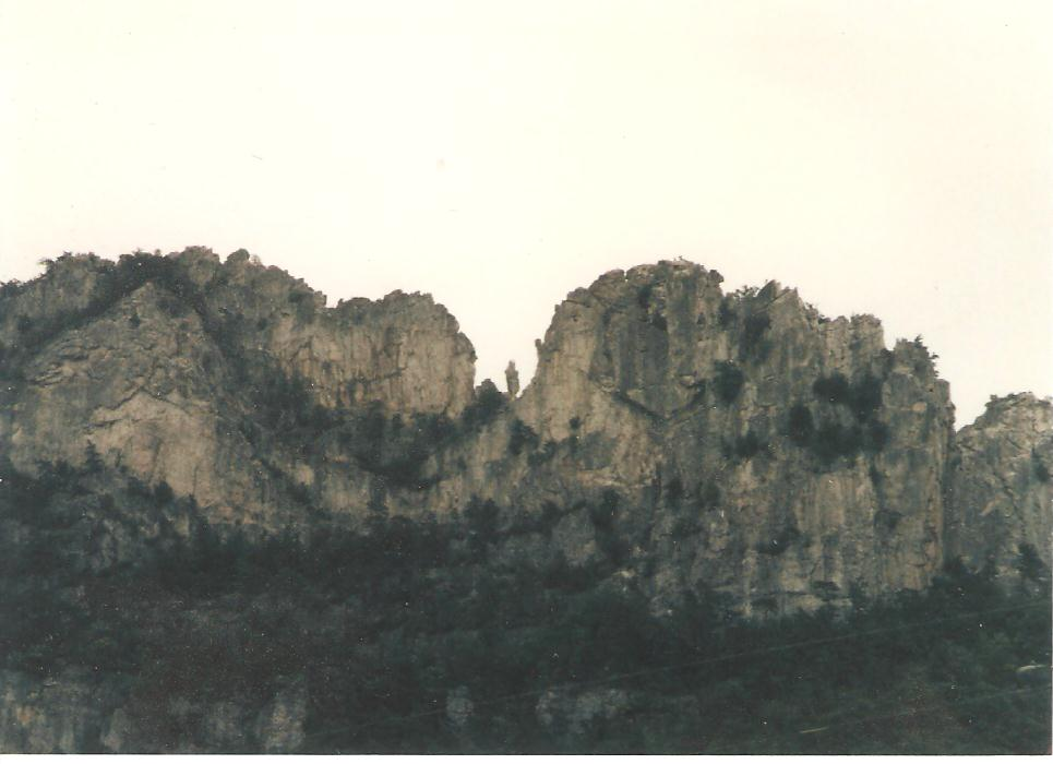 "The Gendarme" at Seneca Rocks 1985 photo by Earl Pappas